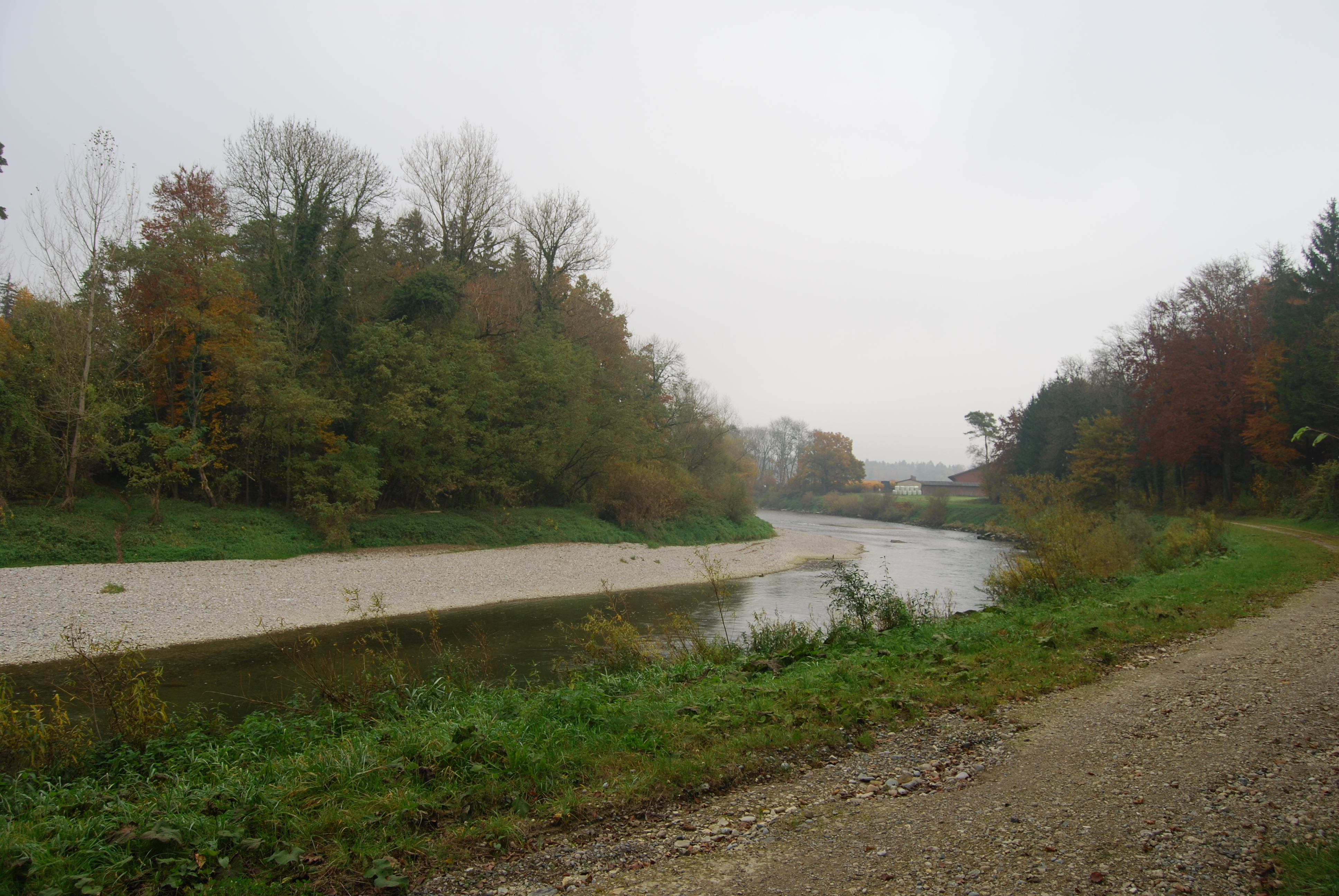 River Thur near Dätwil, municipality of Adlikon, canton of Zürich, SwitzerlandEsperanto: Rivero Turo ĉe Dätwil, komunumo Adlikon, Kantono Zuriko, Svislando